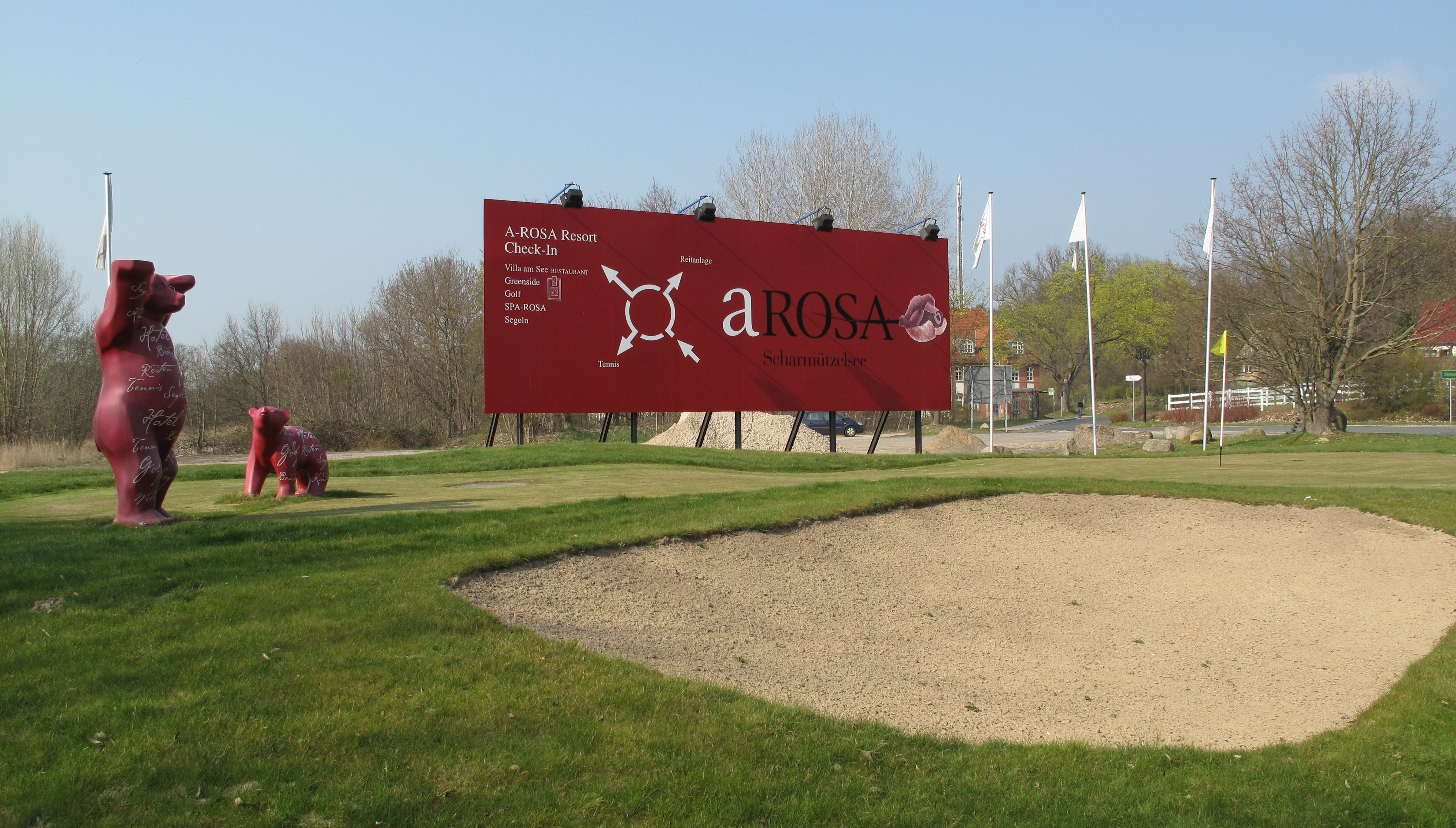 Direction sign of the „A-ROSA Resort Scharmützelsee“ just outside the village of Silberberg. Silberberg is a part (settlement, estate; german: Wohnplatz) of Bad Saarow, District Oder-Spree, Brandenburg, Germany. The former manor and manor district (german: Gutsbezirk) is situated in a hilly country approximately 1,5 kilometers west of the Scharmützelsee. Silberberg was incorporated into Bad Saarow in 1928.